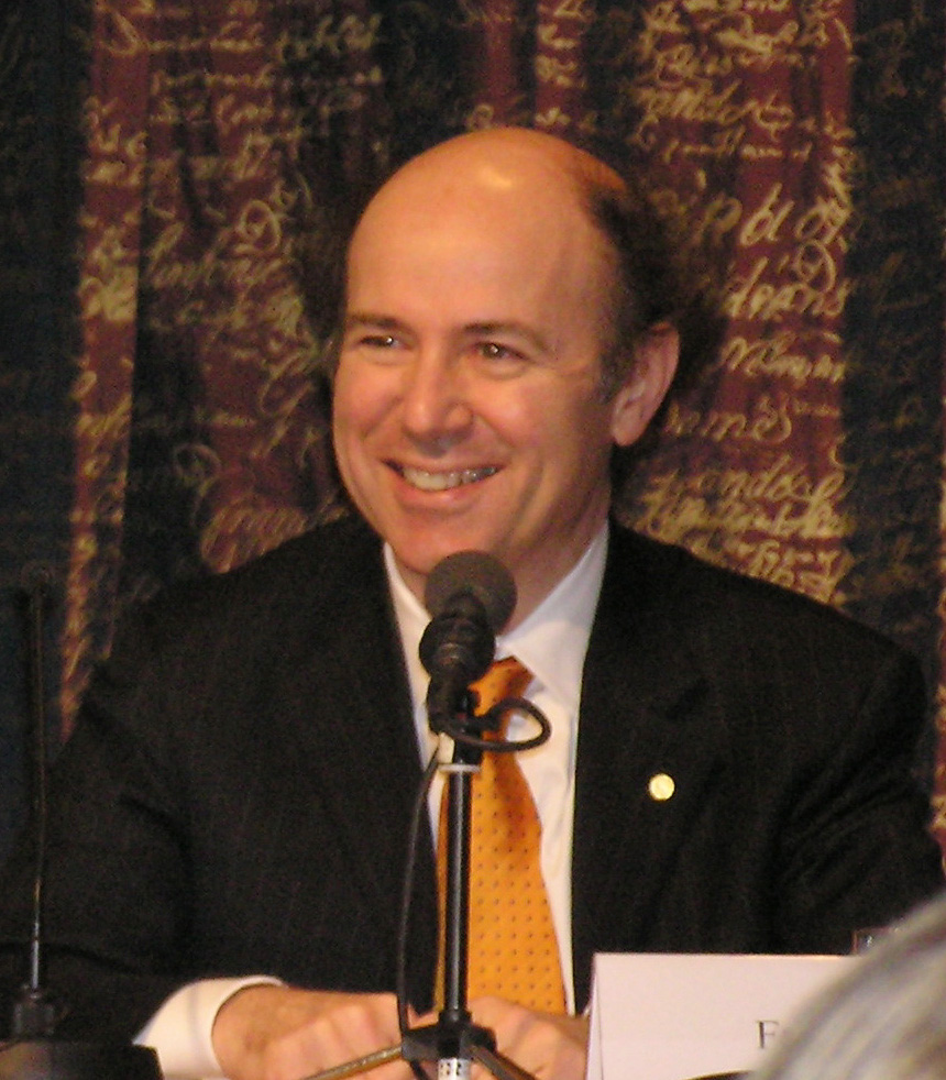 Frank Wilczek at Nobel press conference in Stockholm